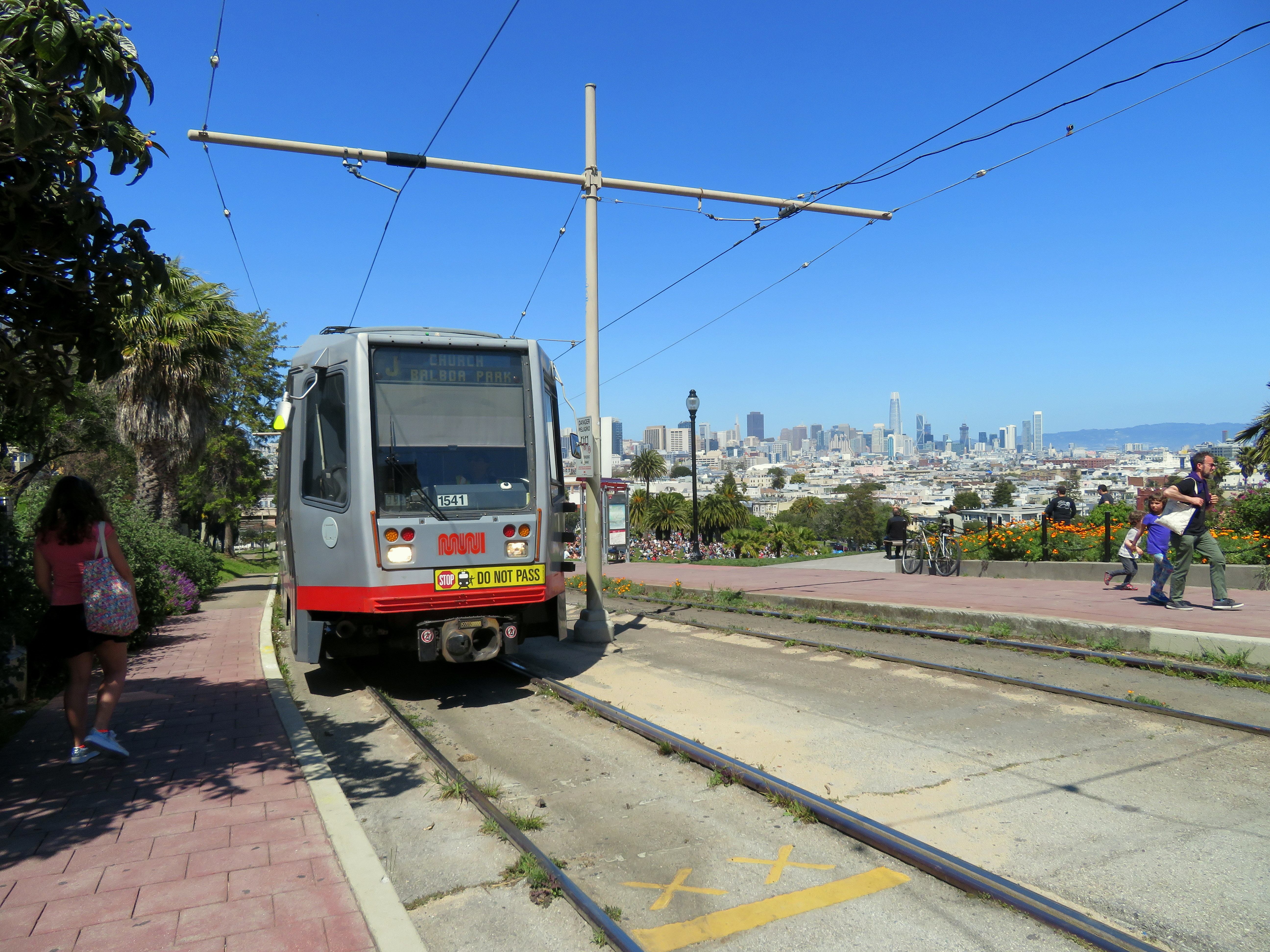 An outbound J Church train at Right Of Way/20th Street station in February 2018